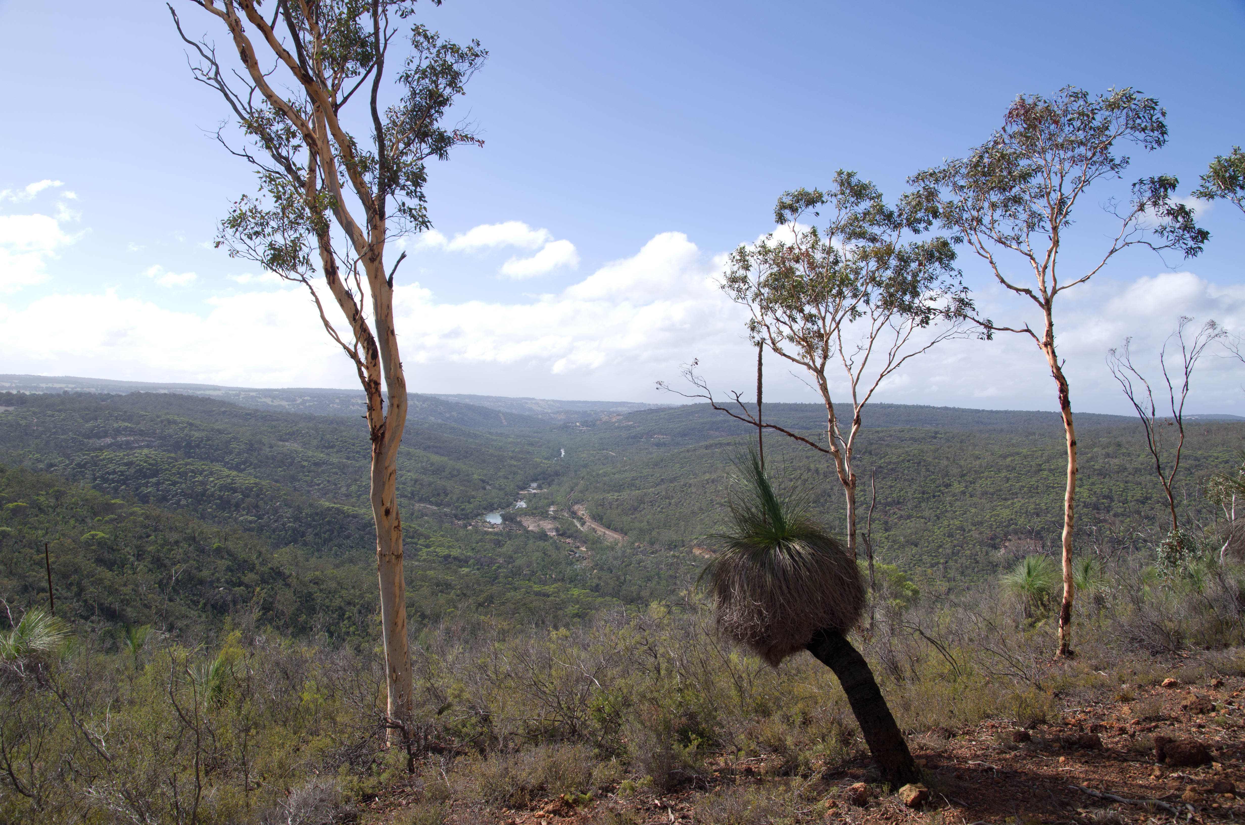 Avon Valley National Park Eucalyptus accedens(Powder-barked Wandoo) Xanthorrhoea(Grasstree) Avon River